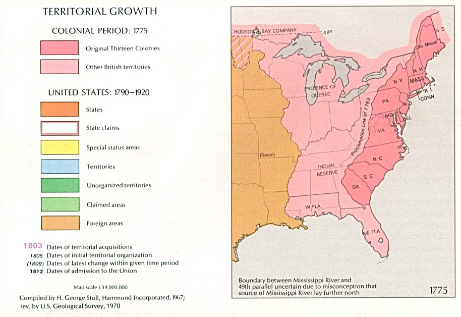 1970 USGS map of US territorial growth as of 1775